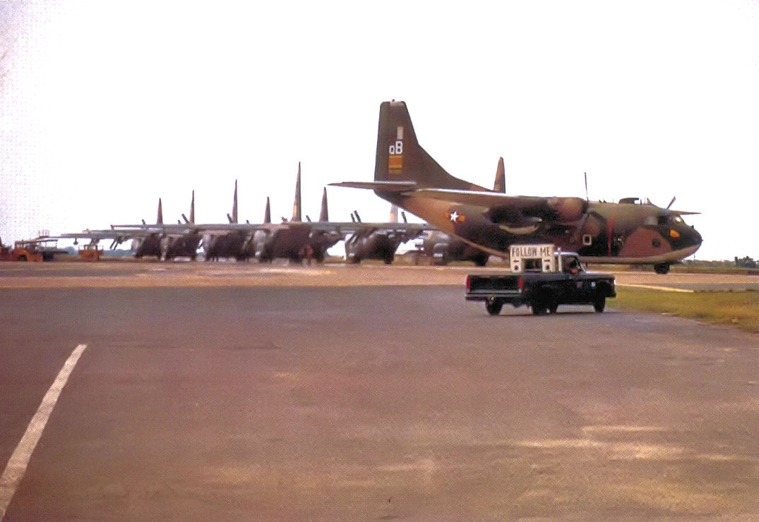 South Vietnamese Air Force Fairchild C-123B-15-FA Provider 55-4565 at Tan Son Nuht AB. Assigned to the 421st Transport Squadron, Identified by the "Q" on the tail. These C-123s were replaced by the C-130s parked in the background.